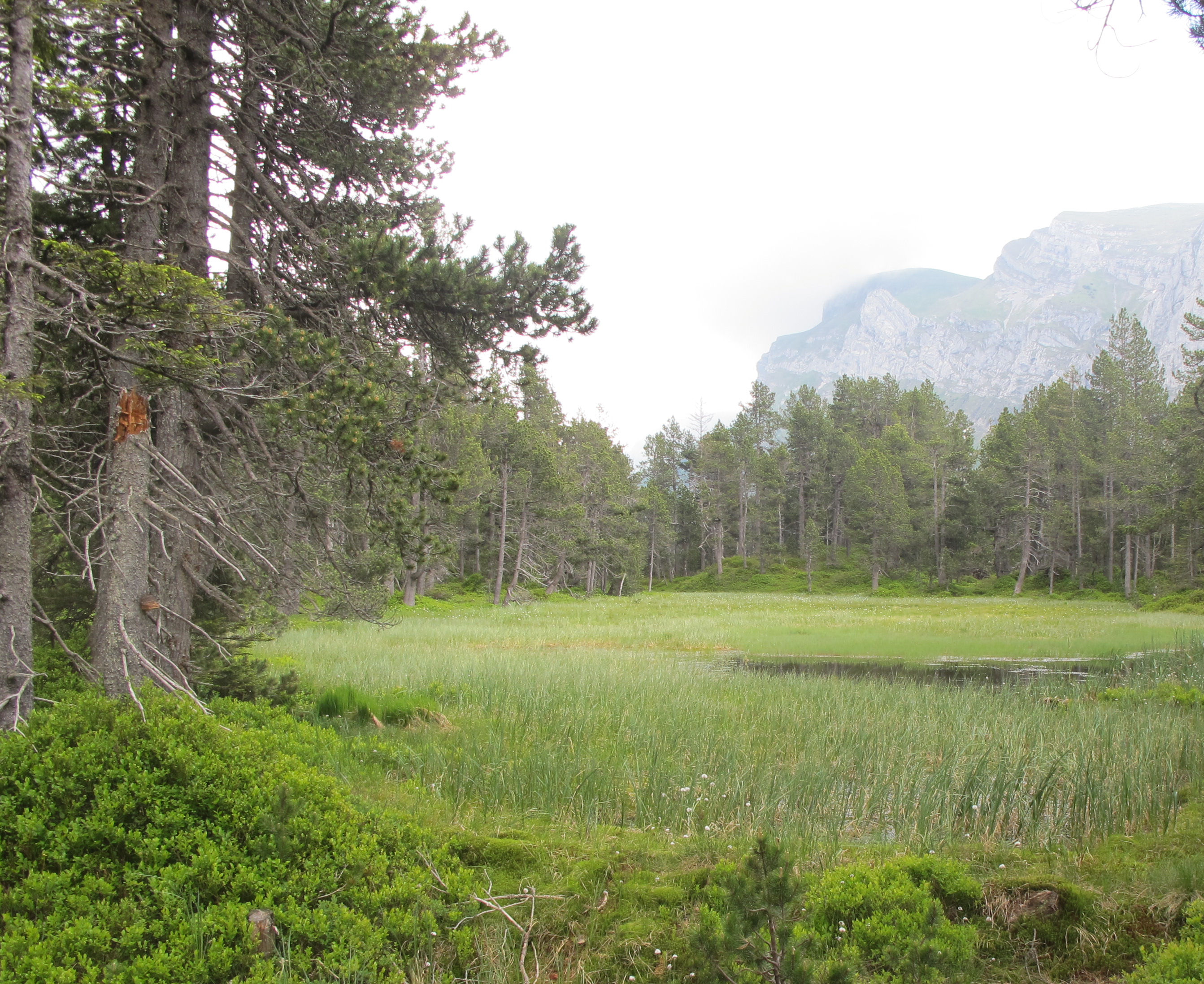 Pilatussee